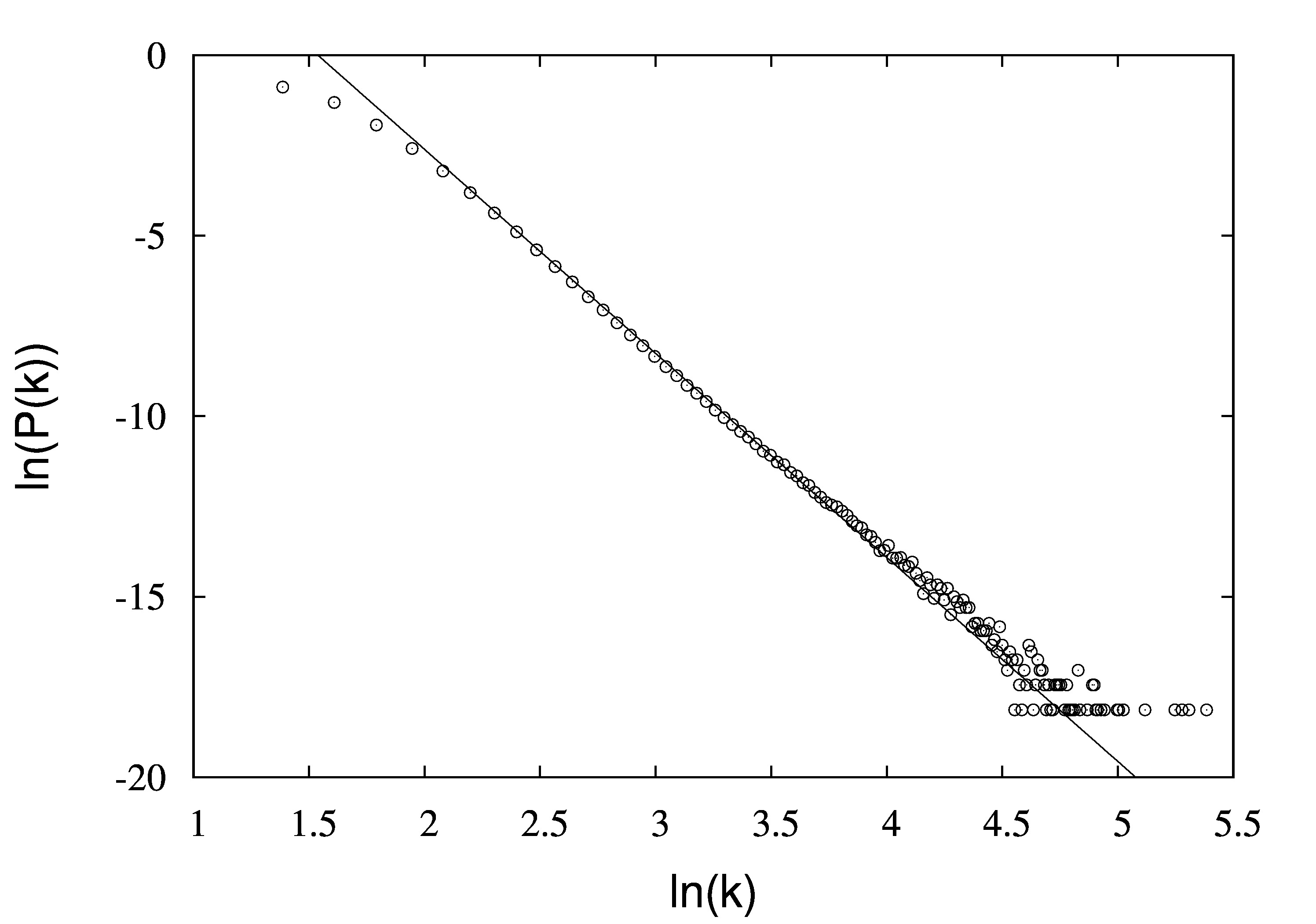 Degree distribution of the dual of the WPSL and coordination number distribution of the WPSL itself.